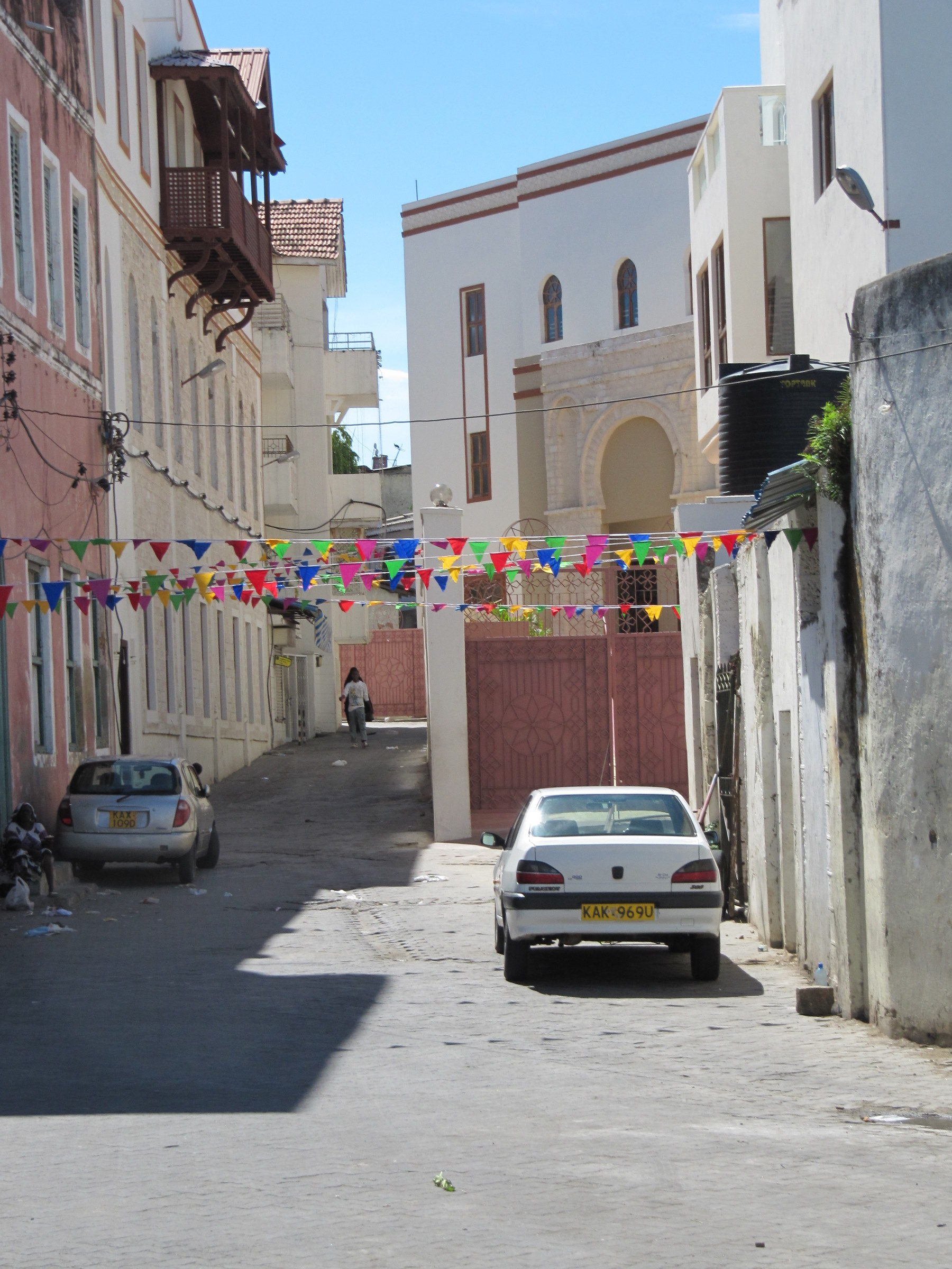 Mombasa old town, Kenya